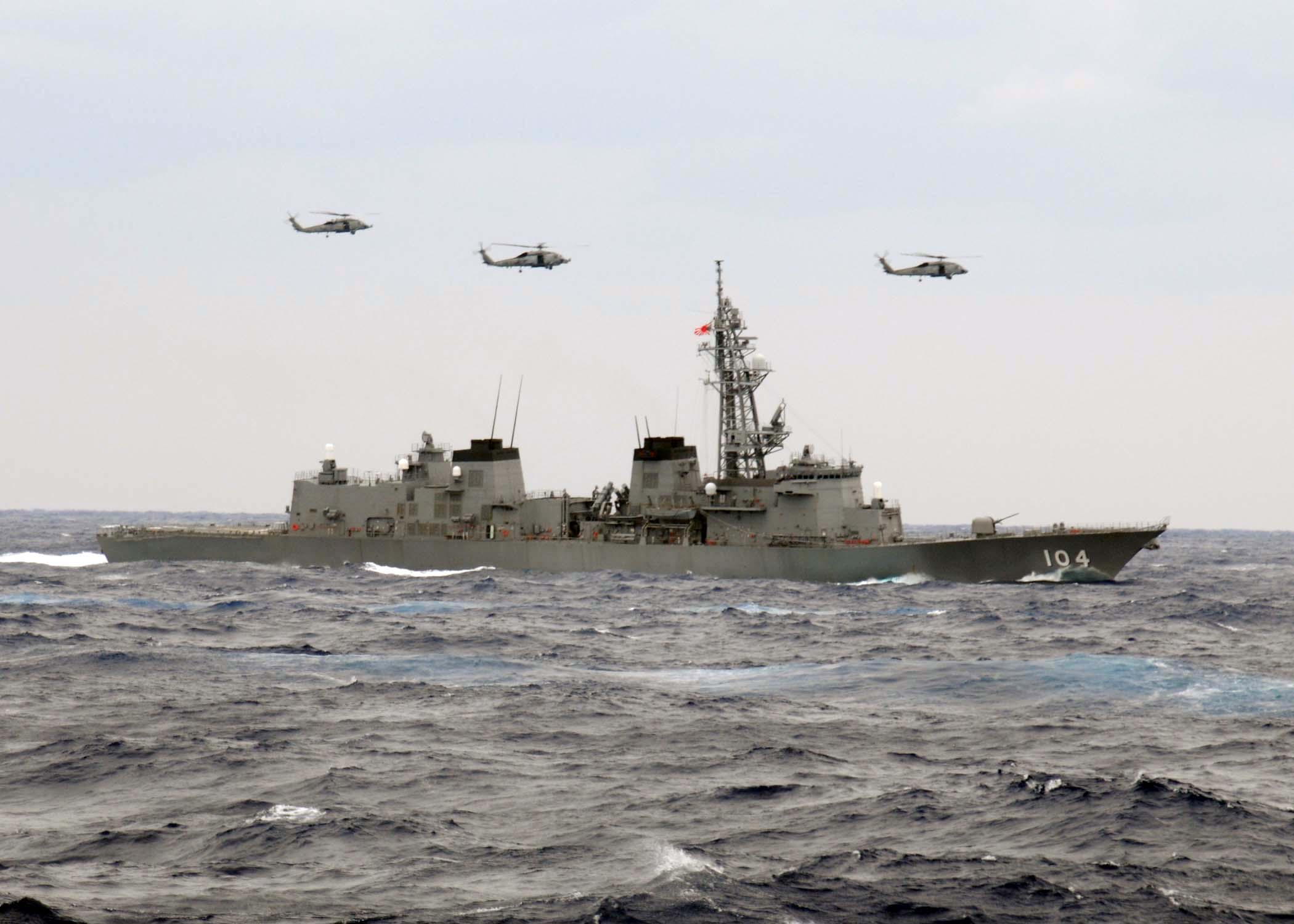 PACIFIC OCEAN (Nov. 19, 2008) Helicopters from Carrier Air Wing Five (CVW 5) fly over Japan Maritime Self-Defense Force JDS Kirisame (DD 104) at the culmination of ANNUALEX 2008. The permanently forward deployed George Washington Carrier Strike Group concluded its bi-lateral training operations in the Pacific Ocean with Japan Maritime and Air Self-Defense Forces, which increased interoperability and strengthened its partnership. (U.S. Navy photo by Mass Communication Specialist 1st Class John M. Hageman/Released)